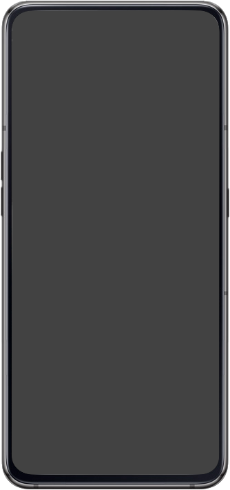 The Galaxy A80 phone with transparent background